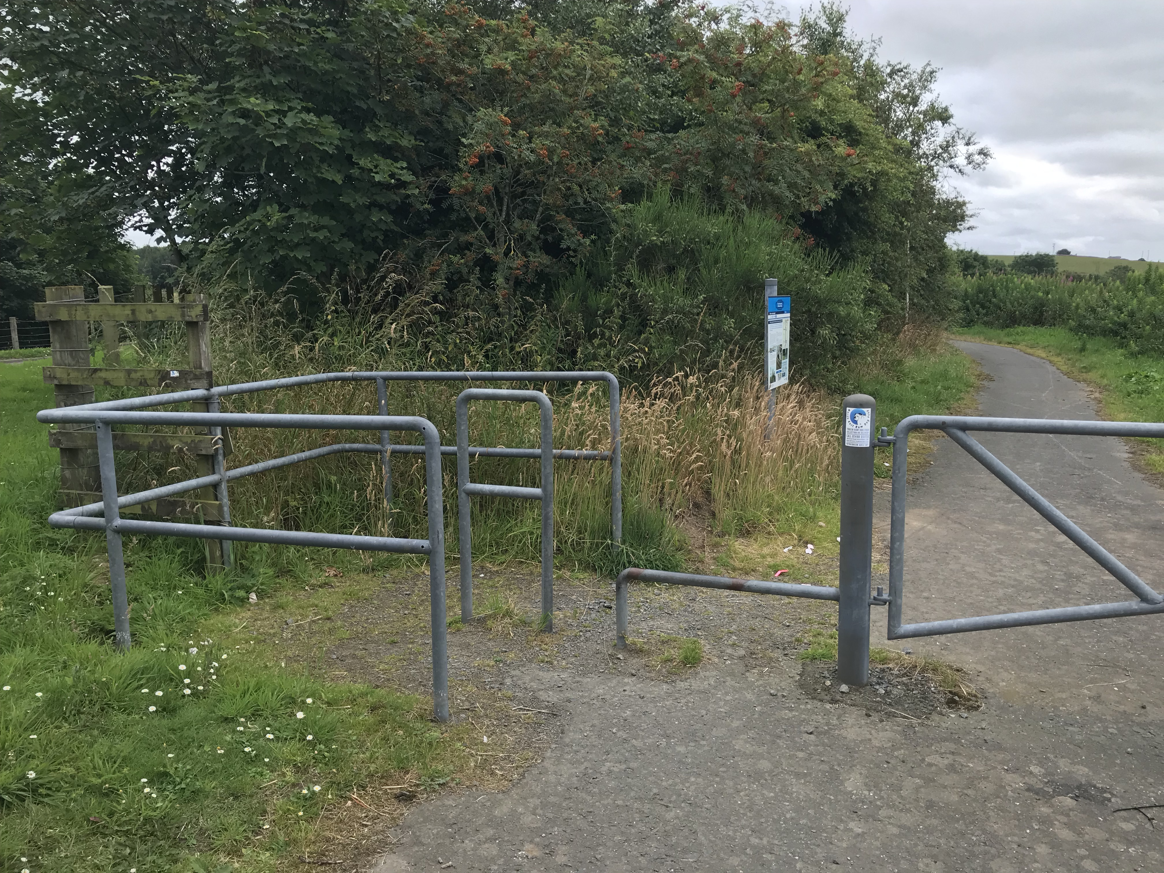 Formartine & Buchan Way cycle route, where it meets National Cycle Network Route 1 at Auchnagatt, Aberdeenshire